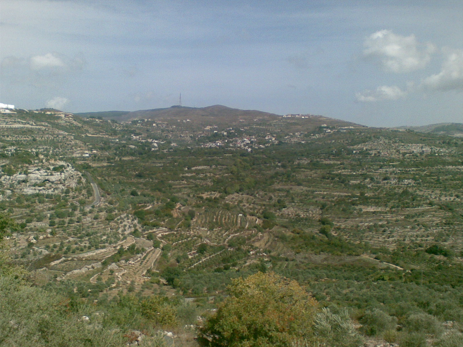 This is the Village of Sebei.